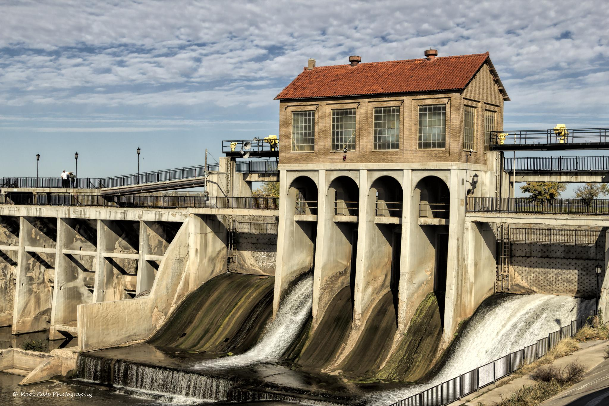 Lake Overholser is Oklahoma City's oldest reservoir, built in 1919 to provide water to a treatment plant still operating at NW 6 and Pennsylvania Avenue.